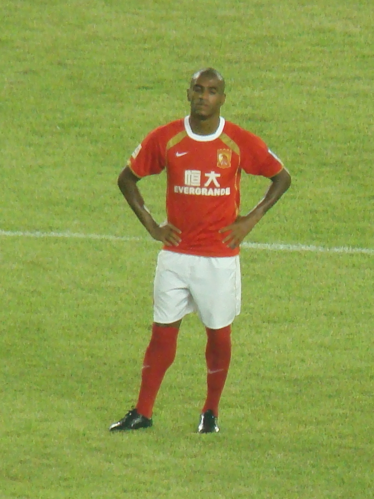 Muriqui played in the Chinese Super League